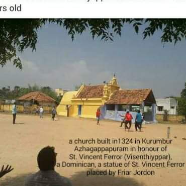 between 1324 and 1328 Friar Jordan who came to Travancore, visited all the places where St. Thomas the Apostle had formed Christian communities, including the South Pandian Kingdom. One evidence to prove his preaching Christianity in the Pandian kingdom is the building of a church in Kurumbur Azhagappapuram in honour of St. Vincent Ferror (Visenthiyppar), a Dominican. In that church we can find a statue of St. Vincent Ferror placed by Friar Jordan. At that time the Christians of kankkankuduyiruppu had migrated to the fertile land north of Maanaveeranaadu and south of Thaamirabarani River. That is why Friar Jordan had to build the church of St. Vincent Ferror in Kurumbur.